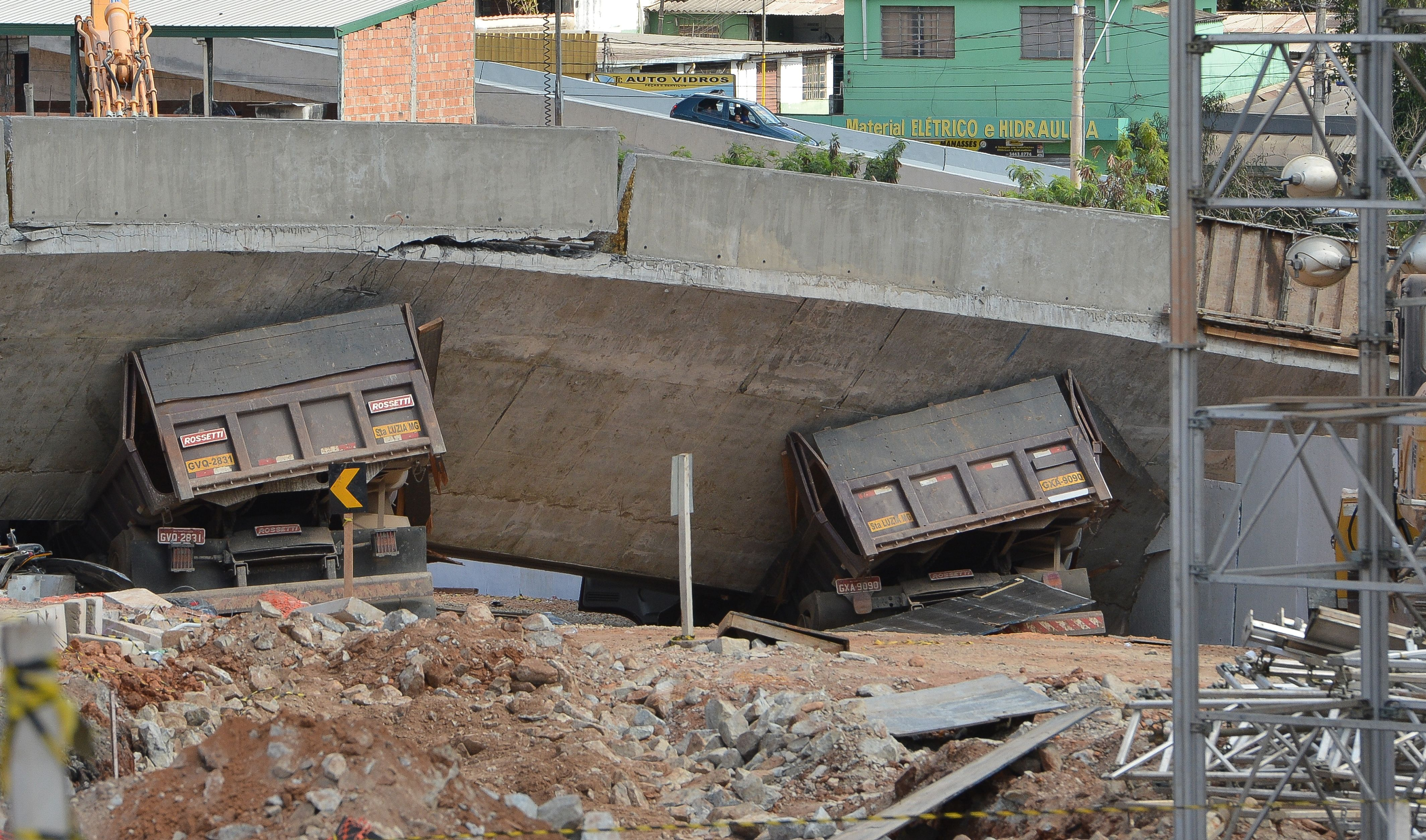 Fallen bridge in Belo Horizonte. Marcello Casal Jr/Agência Brasil - CCBY3.0